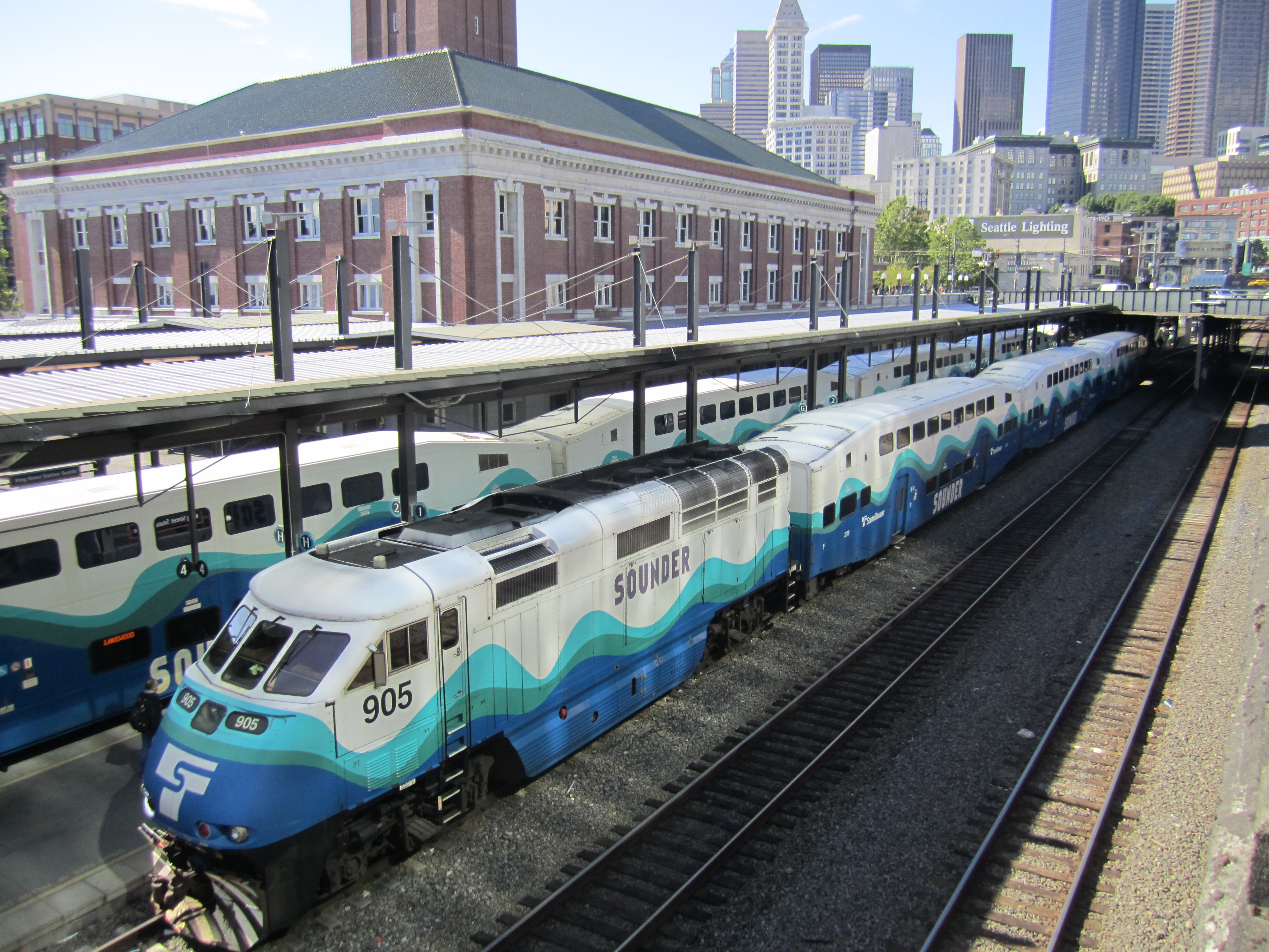 Sounder at King Street Station